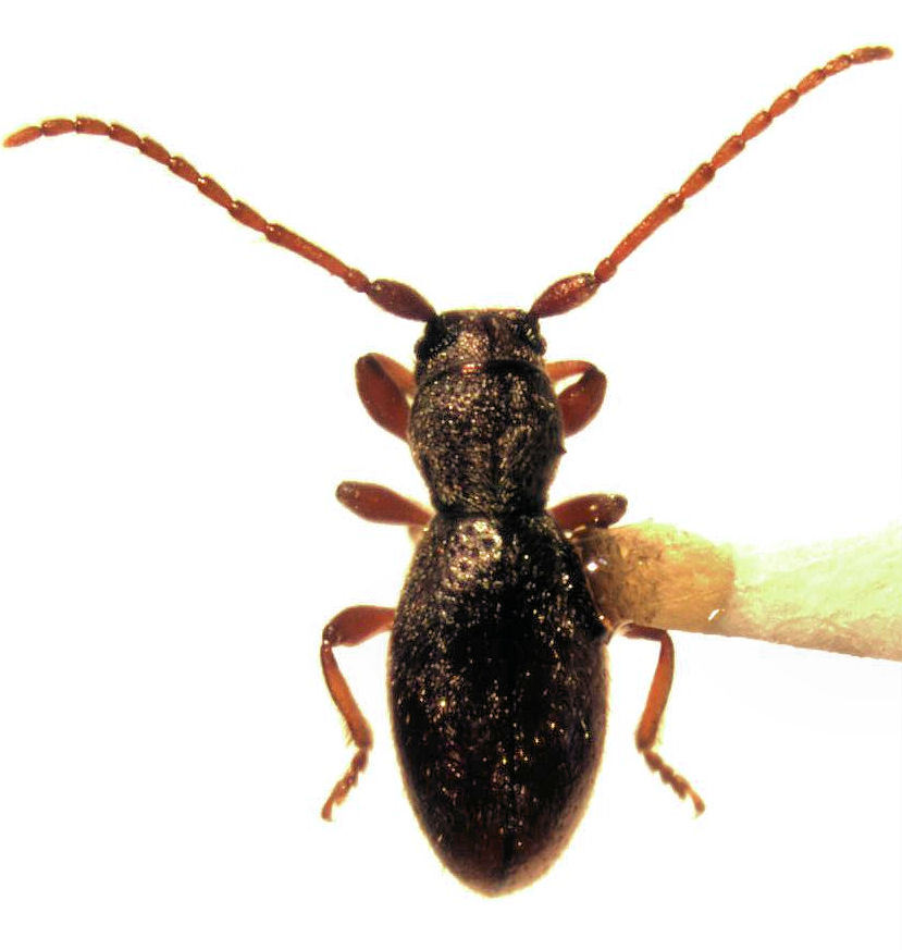 adult Somatidia (Ptinosoma) n. sp., length about 3.8 mm. NEW ZEALAND, Antipodes Island, North Plains (crater), pitfall trap 2D1G, 3-13 Feb 2011, J.C. Russell